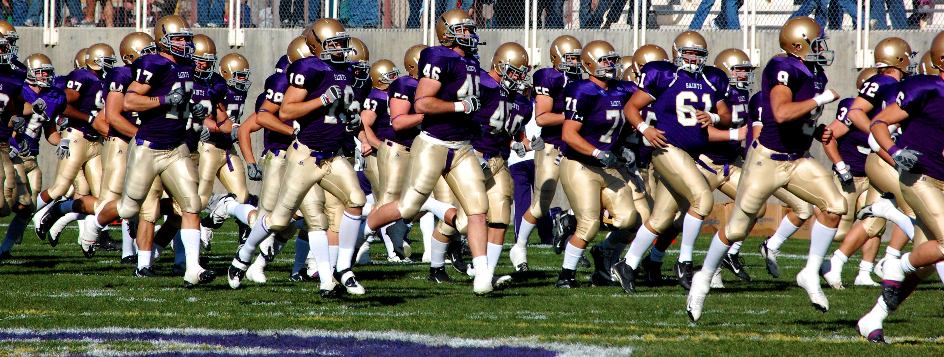 Carroll College Fighting Saints enter the field for their game against MSU - Northern on October 25, 2008.